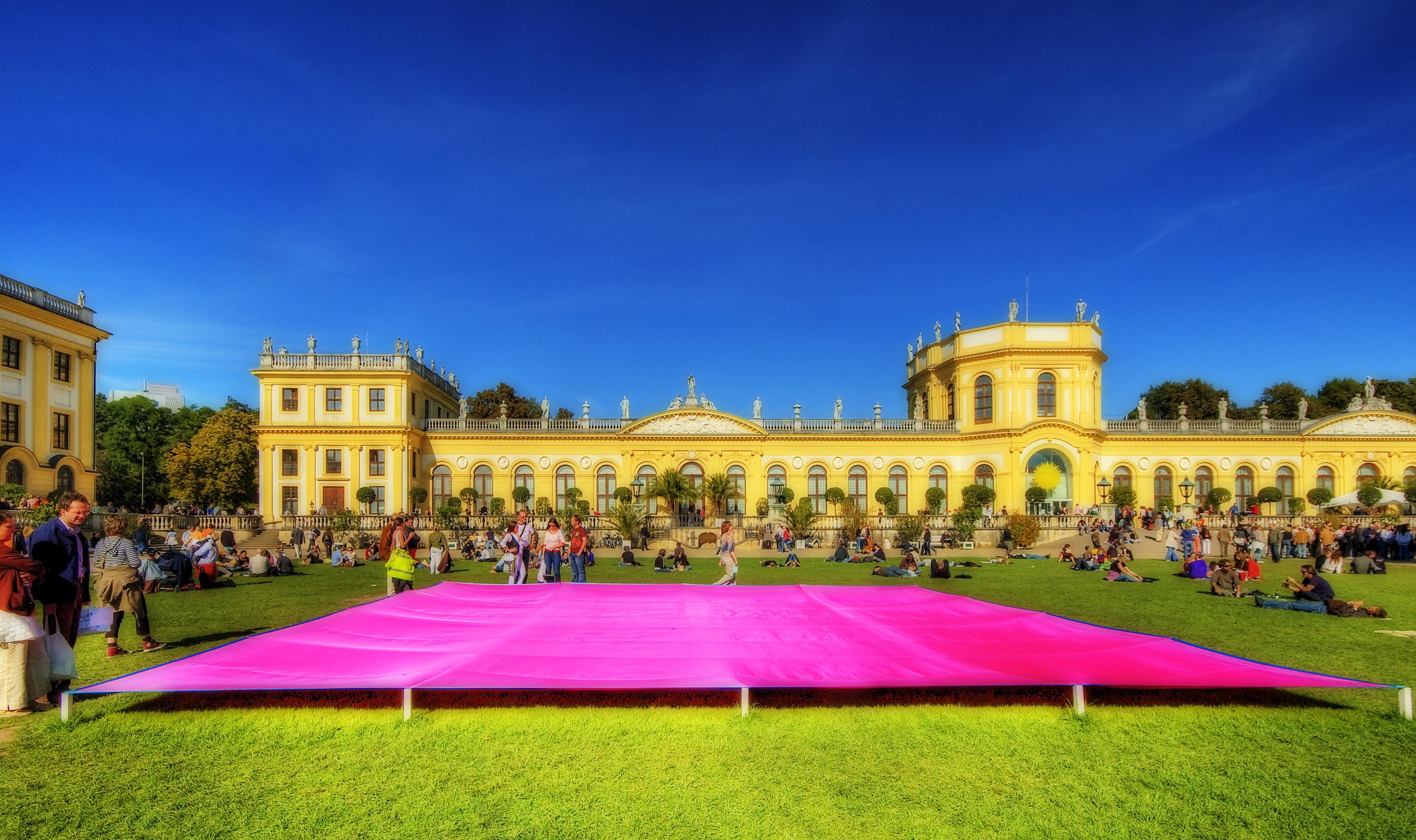 Tanaka Atsuko, "Tokyo Work" (1955), 2007 reconstruction at the documenta 12, Kassel, Germany. Rayon, 1000x1000cm.